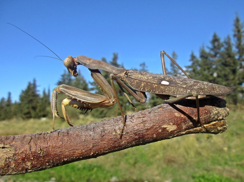 Sphodromantis viridis (Mantidae) - (imago), Río Guadaiza, Spain